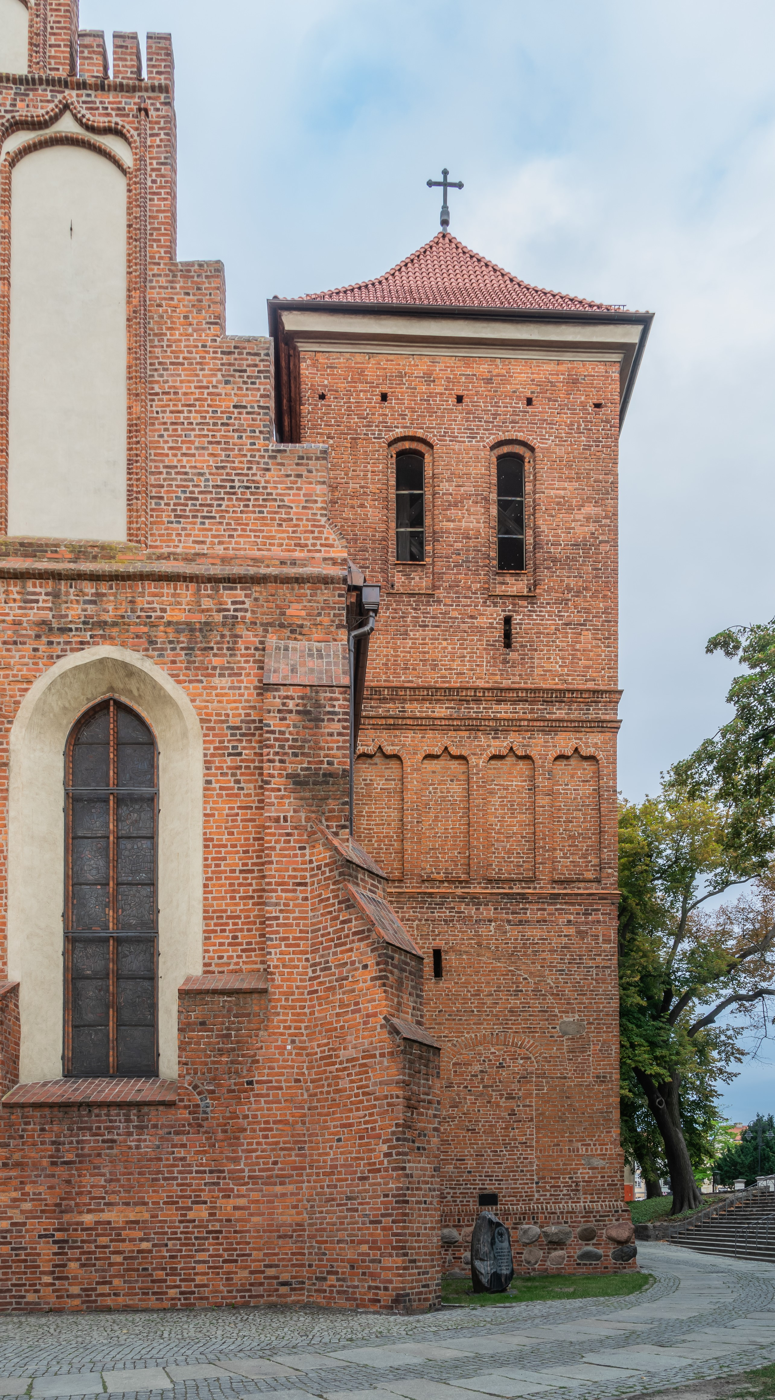 Saints Martin and Nicholas cathedral in Bydgoszcz, Kuyavian-Pomeranian Voivodeship, Poland